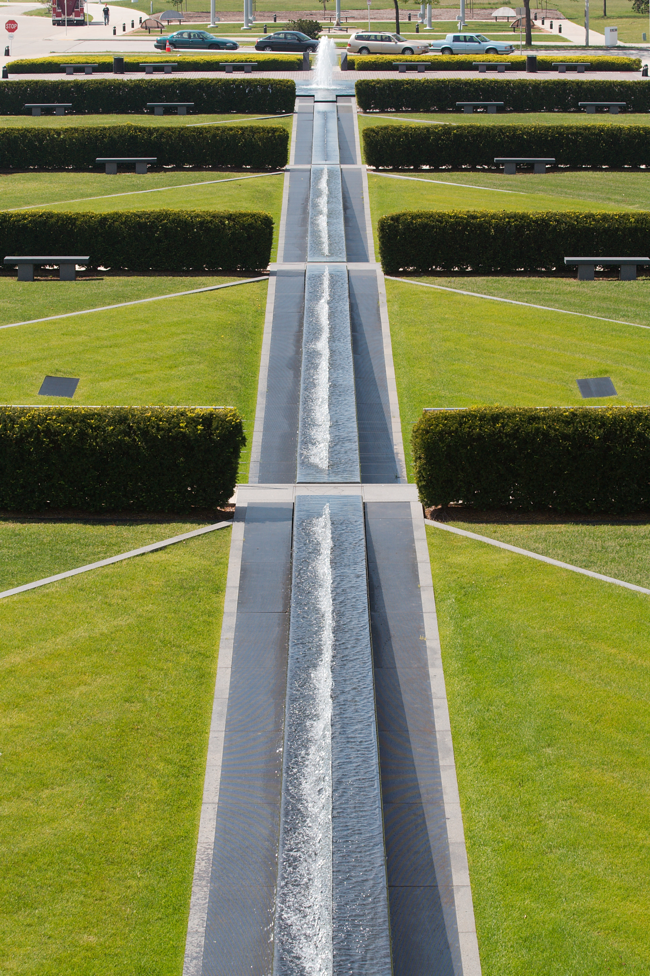 The garden by the Art Museum in Milwaukee, Wisconsin